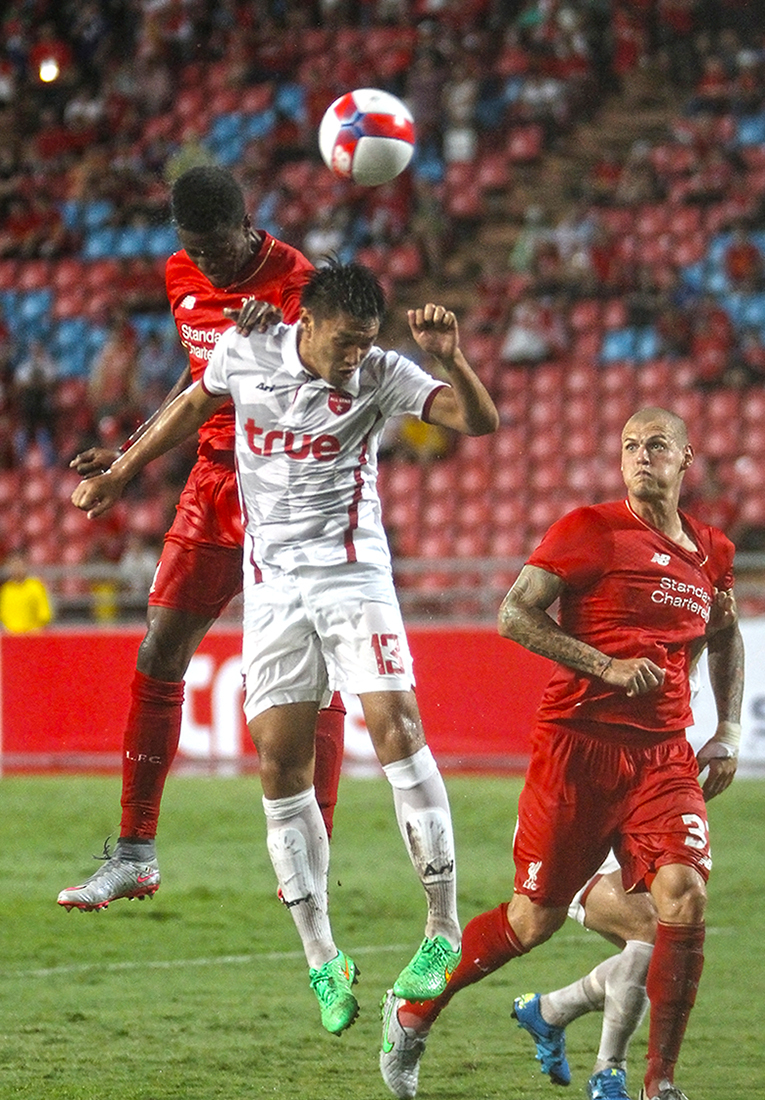 Goal from Divock Origi